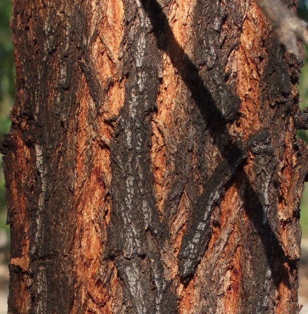 Shows the bark of the Eucalyptus melanophloia at 23°32'27"S 148°09'51"E (WGS84)